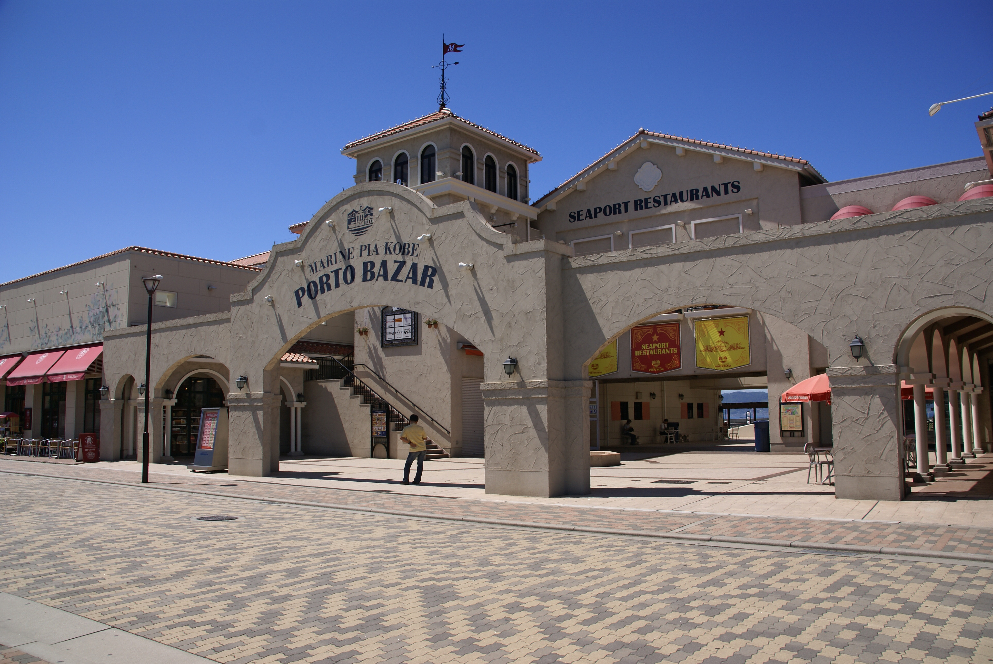 Marine pia Kobe in Kobe, Hyogo prefecture, Japan